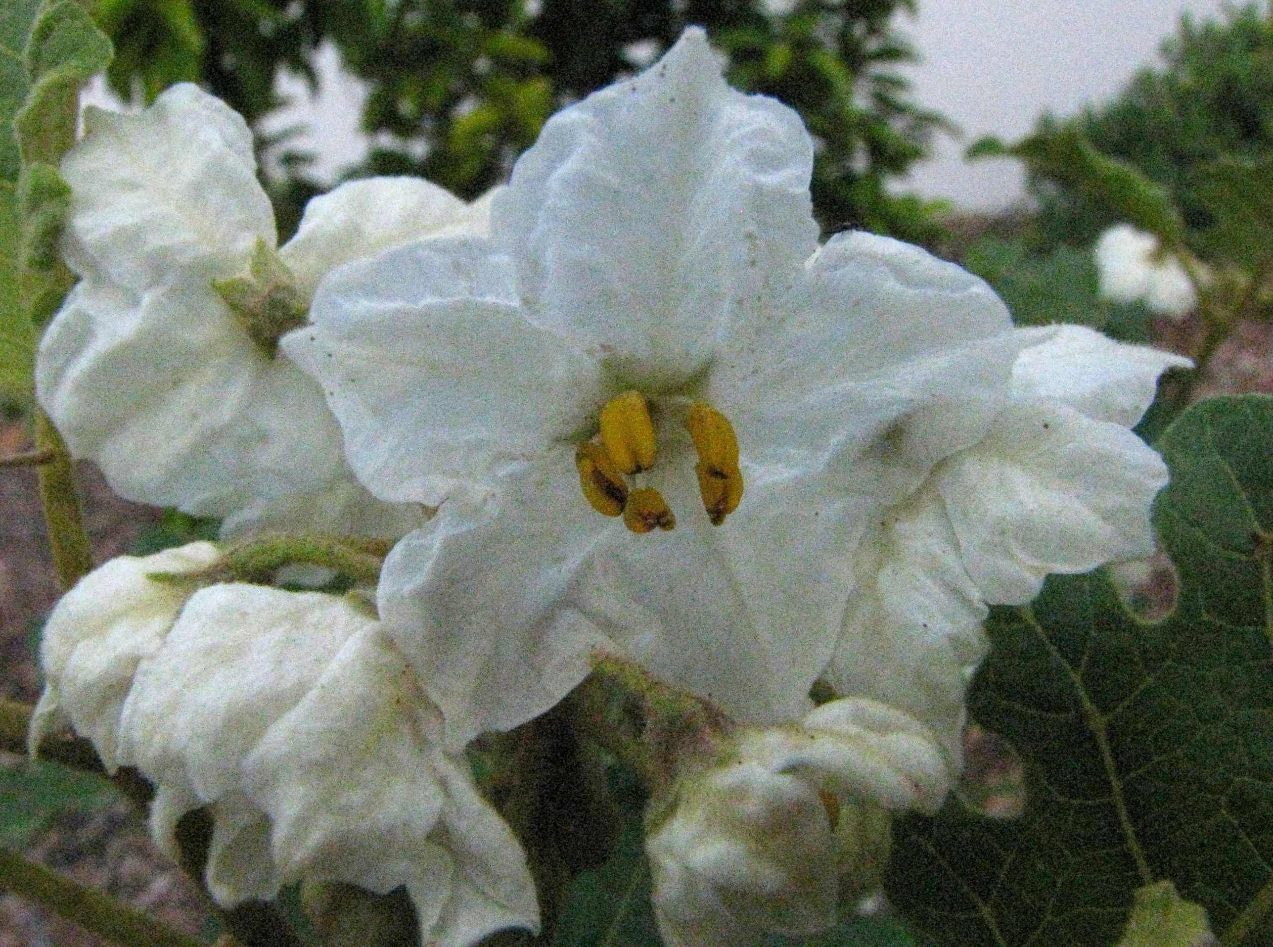 Pōpolo kū mai Solanaceae Endemic to the Hawaiian Islands Endangered Oʻahu (Cultivated)